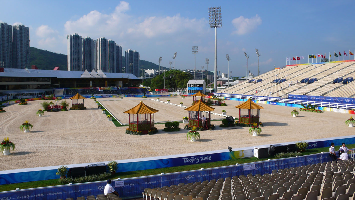 The Hong Kong Olympic Equestrian Venue (Sha Tin)